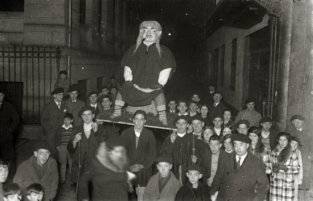 Christmas celebration in Donostia-San Sebastián, Basque Country, Spain (1931)